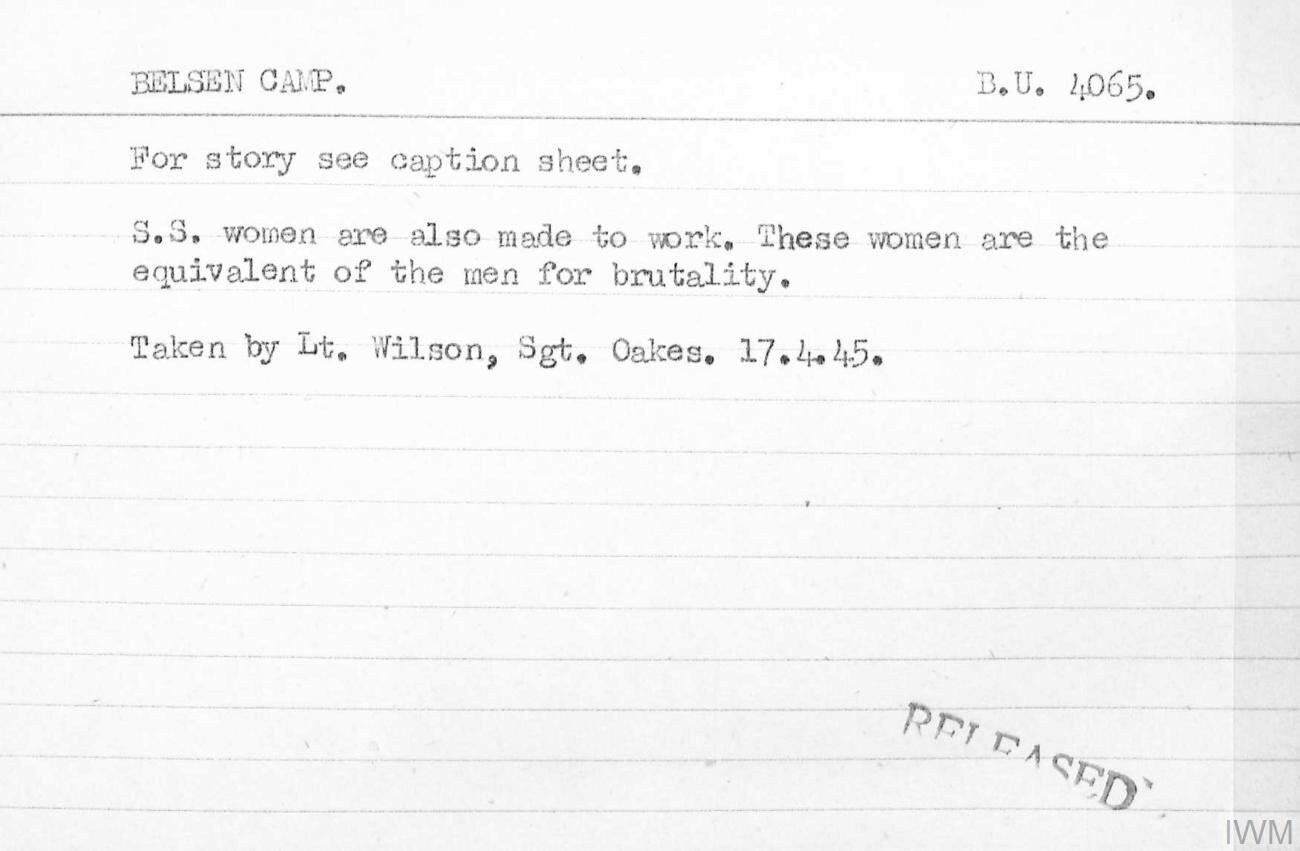 Type written information card for the BU 4065 photograph of captured SS female guards, from the Bergen-Belsen concentration camp, who are being paraded for work in clearing the dead.